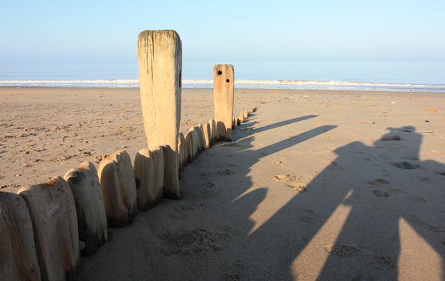 Shadows on the beach, Hornsea, East Riding of Yorkshire, England.This photograph was taken in evening sunshine in April looking roughly east, out to sea.